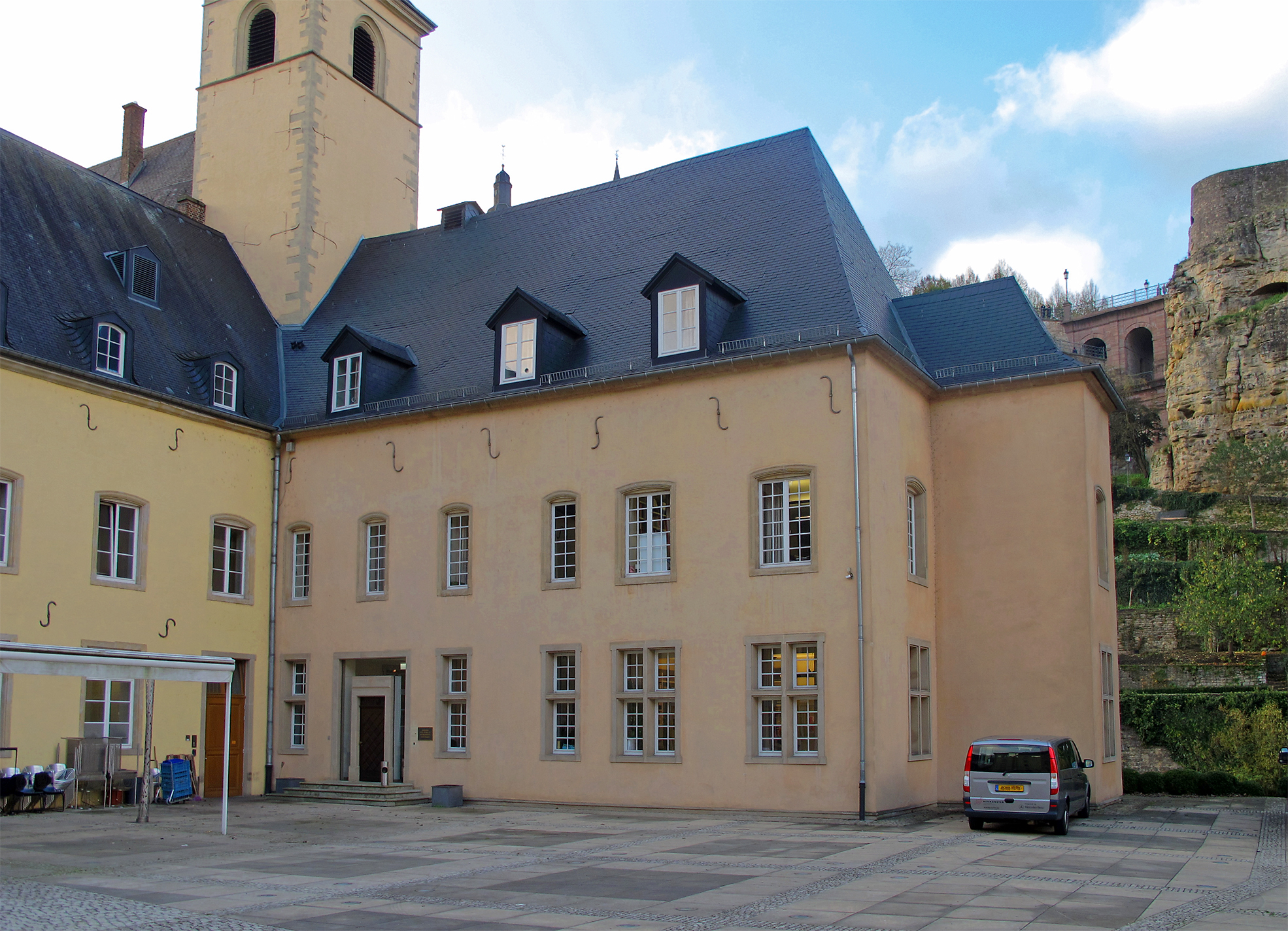 The offices of the Service des sites et monuments nationaux (SSMN) in a building of the Neumünster abbey in Luxembourg-Grund